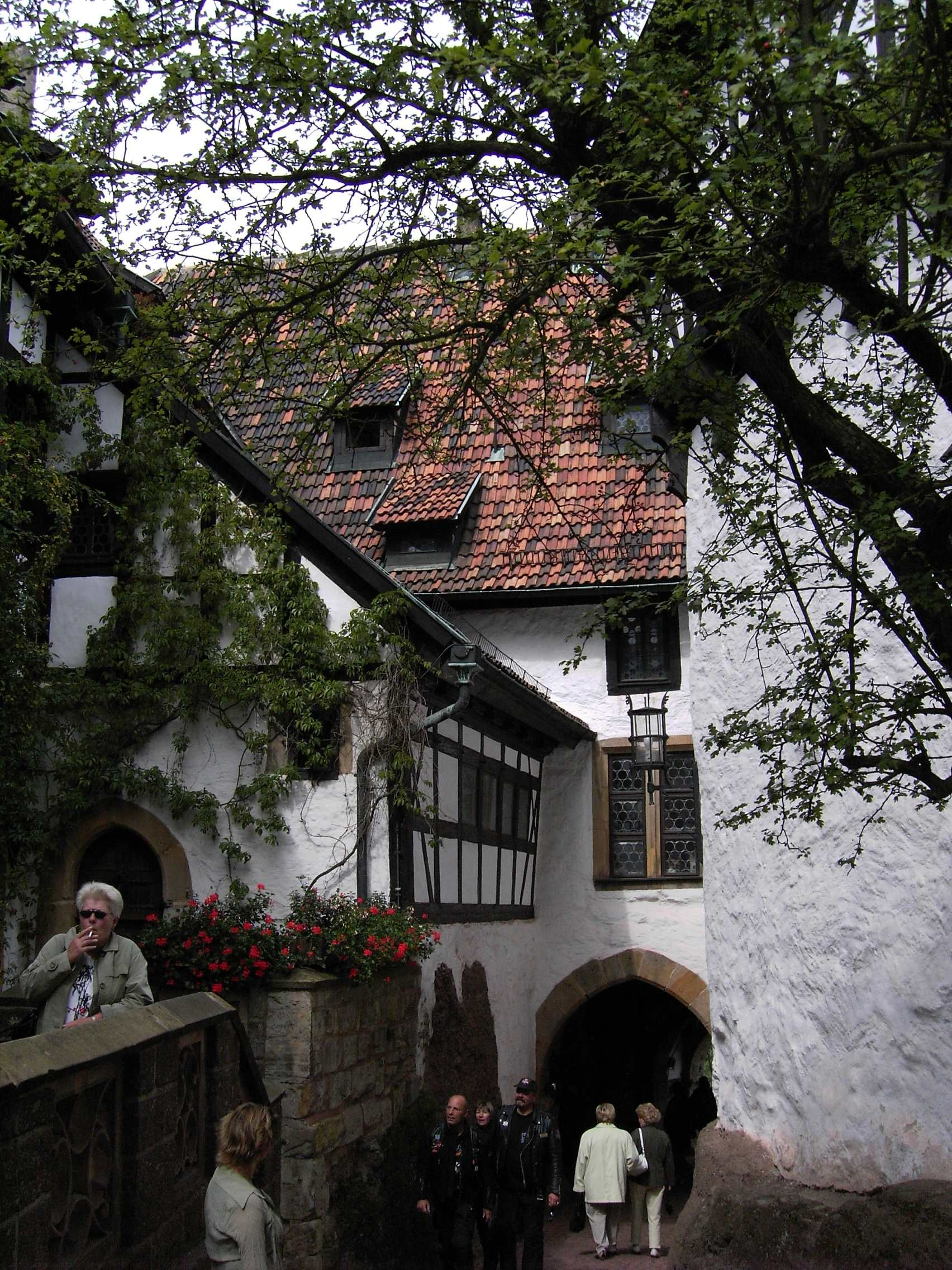 Wartburg, outer gate from the inside.